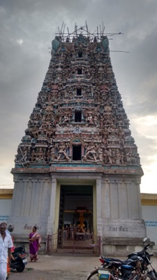 Vettakuditirimenialagartemple வேட்டக்குடிதிருமேனியழகர்கோயில்